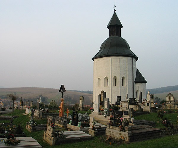 Rounded church in Kallósd